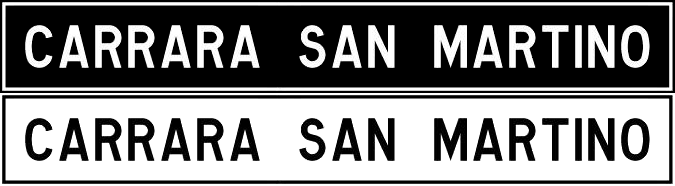 An hypothetical signage for the abandoned railway station of Carrara San Martino.